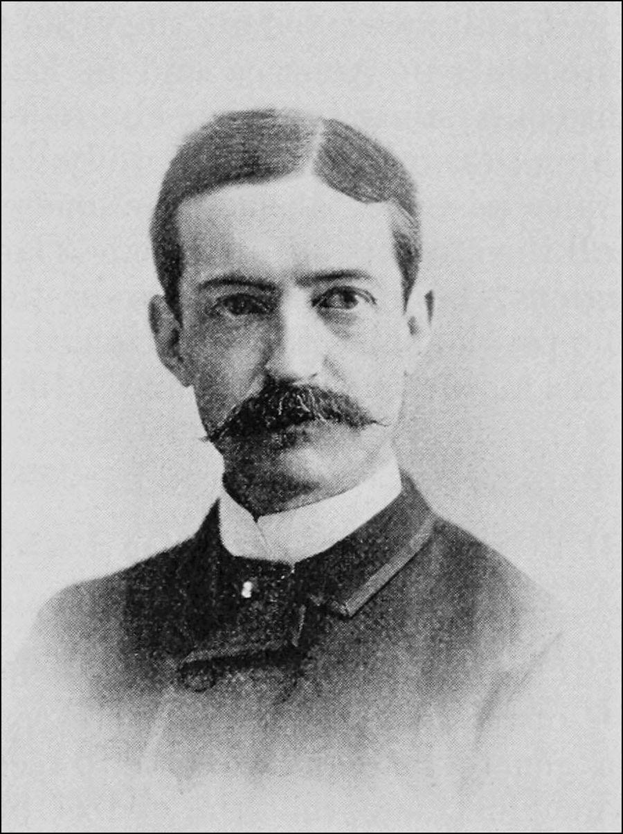 Thomas Frederick Crane